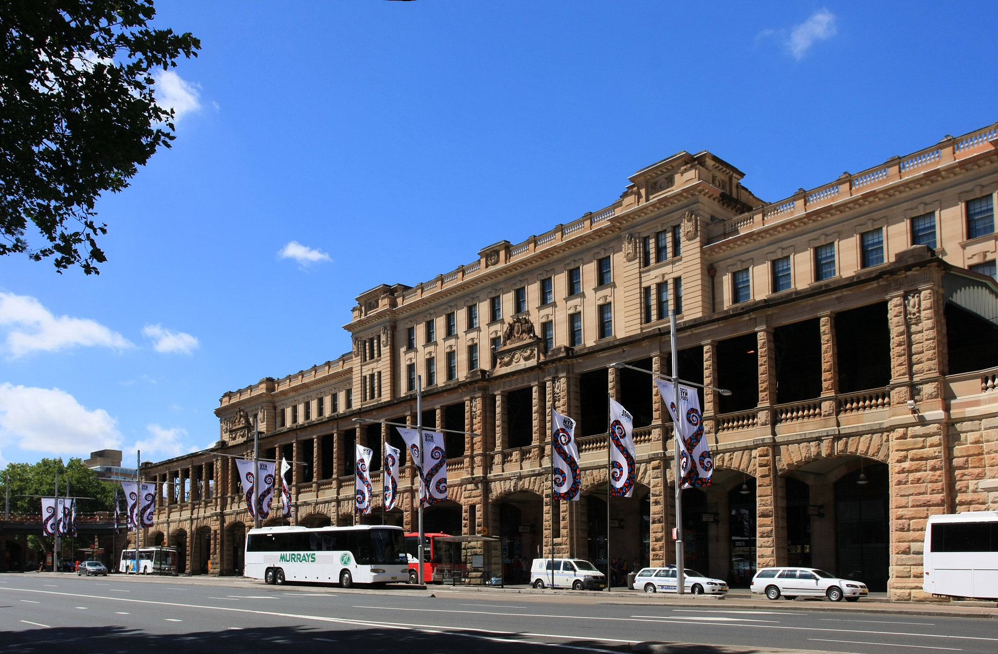 Central Station Sydney